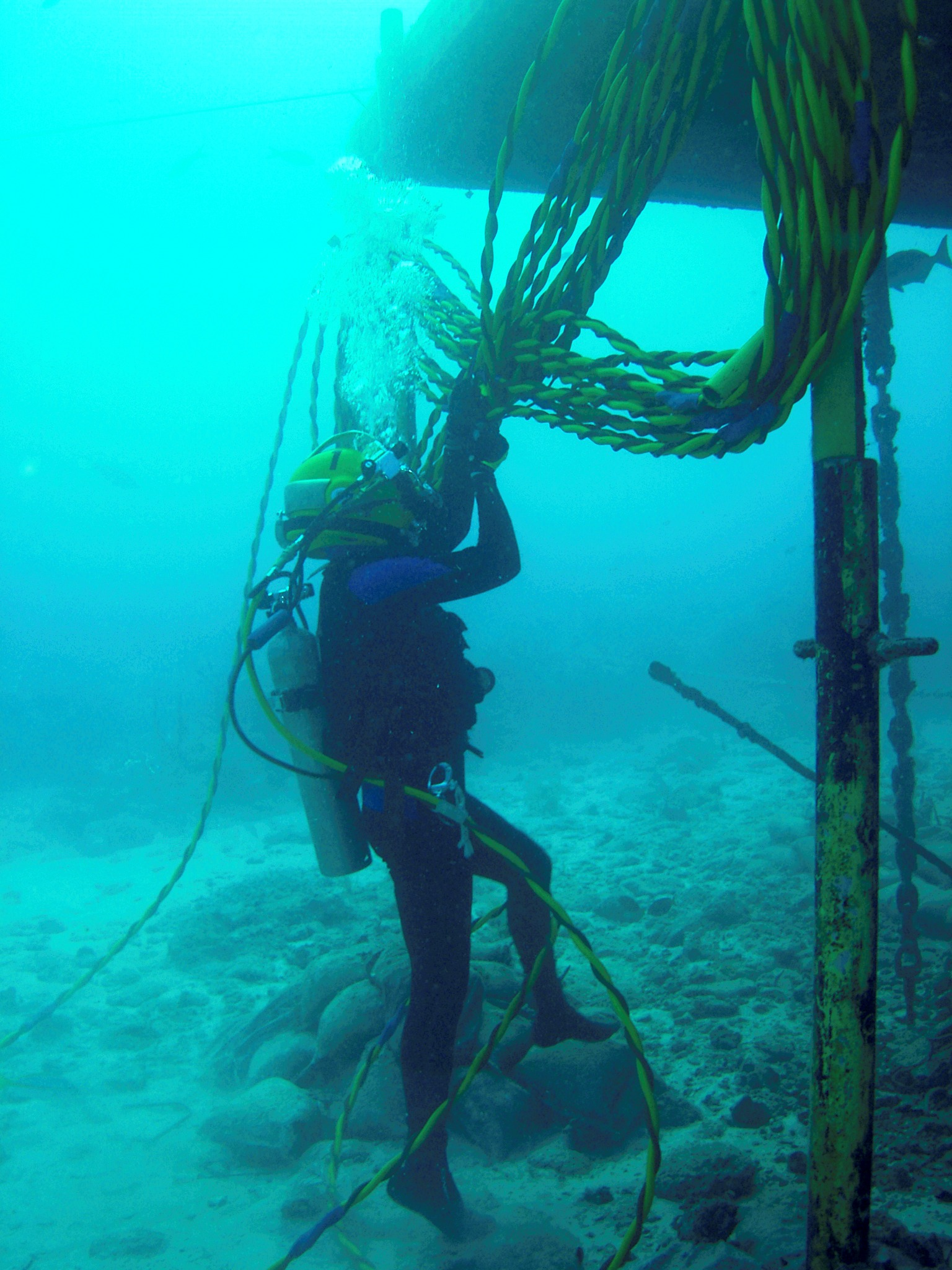 Aquanaut and NASA flight surgeon Josef Schmid performing EVA from the Aquarius underwater habitat during the NEEMO 12 mission in May 2007.